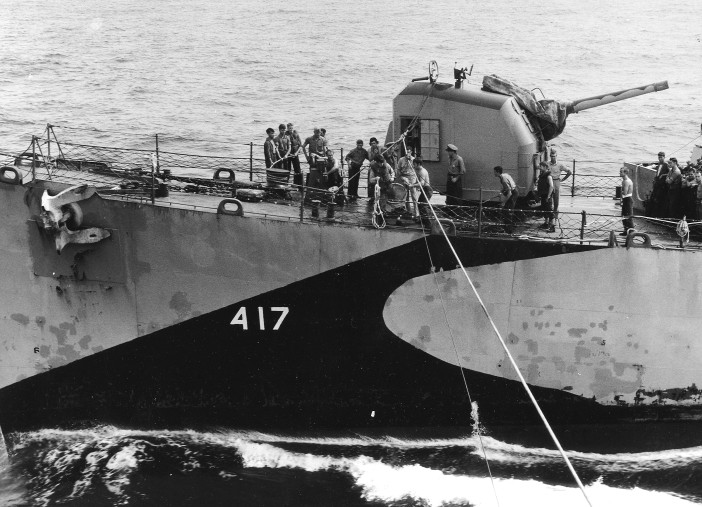 Oliver Mitchell again in a close-up of the port bow about to make the transfer to Anzio. Notice the worn and patched paint as well as the painting of the 5-inch gun barrel.